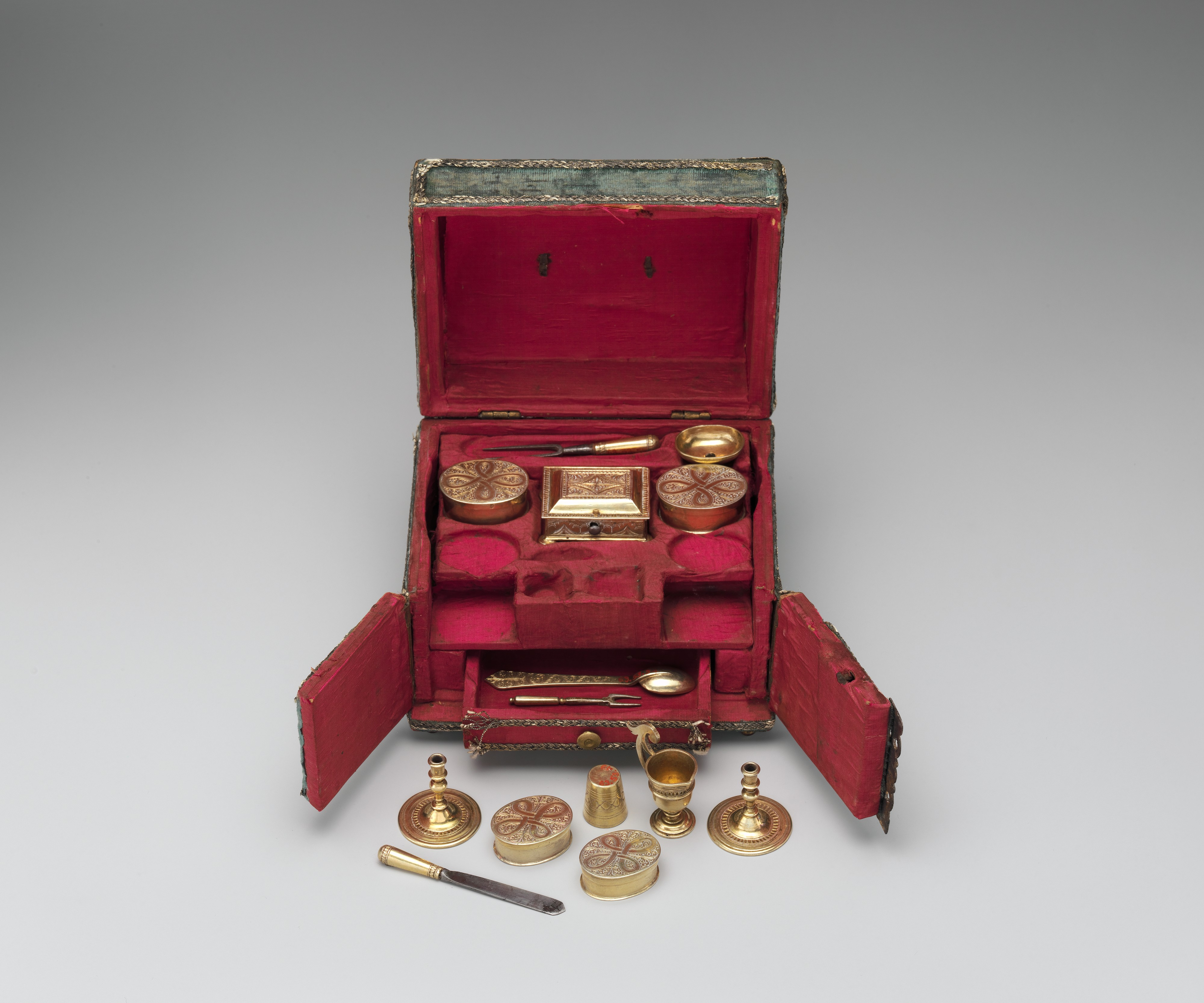 German, probably Augsburg; Box with cover; Metalwork-Silver-Miniature